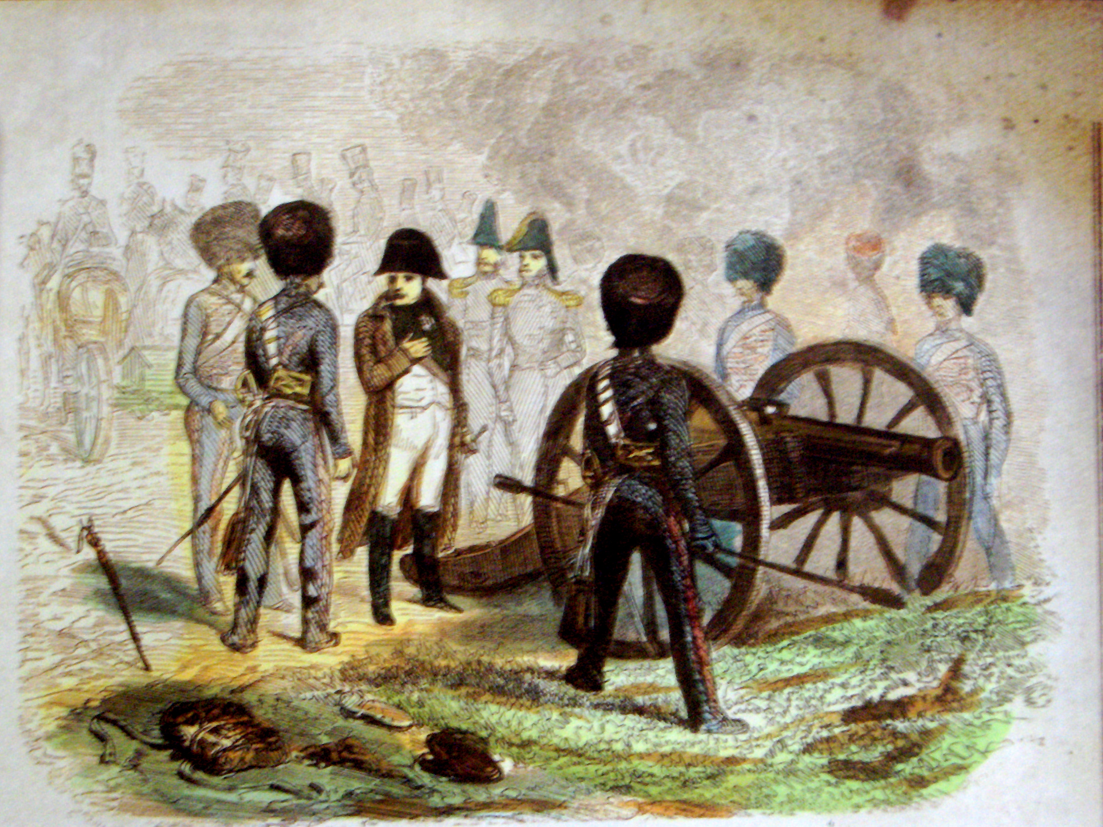 The Emperor Napoleon I giving directions to Guard artillerymen at the battle of Montmirail. The Guard artillery, under Napoleon's careful direct supervision helped turn the tide of the battle and win the day for the French.